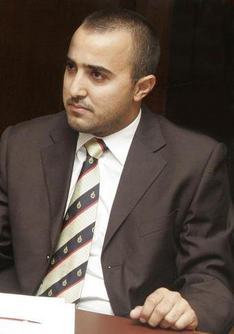 by Hasan Aasal, Annahar. 2008.